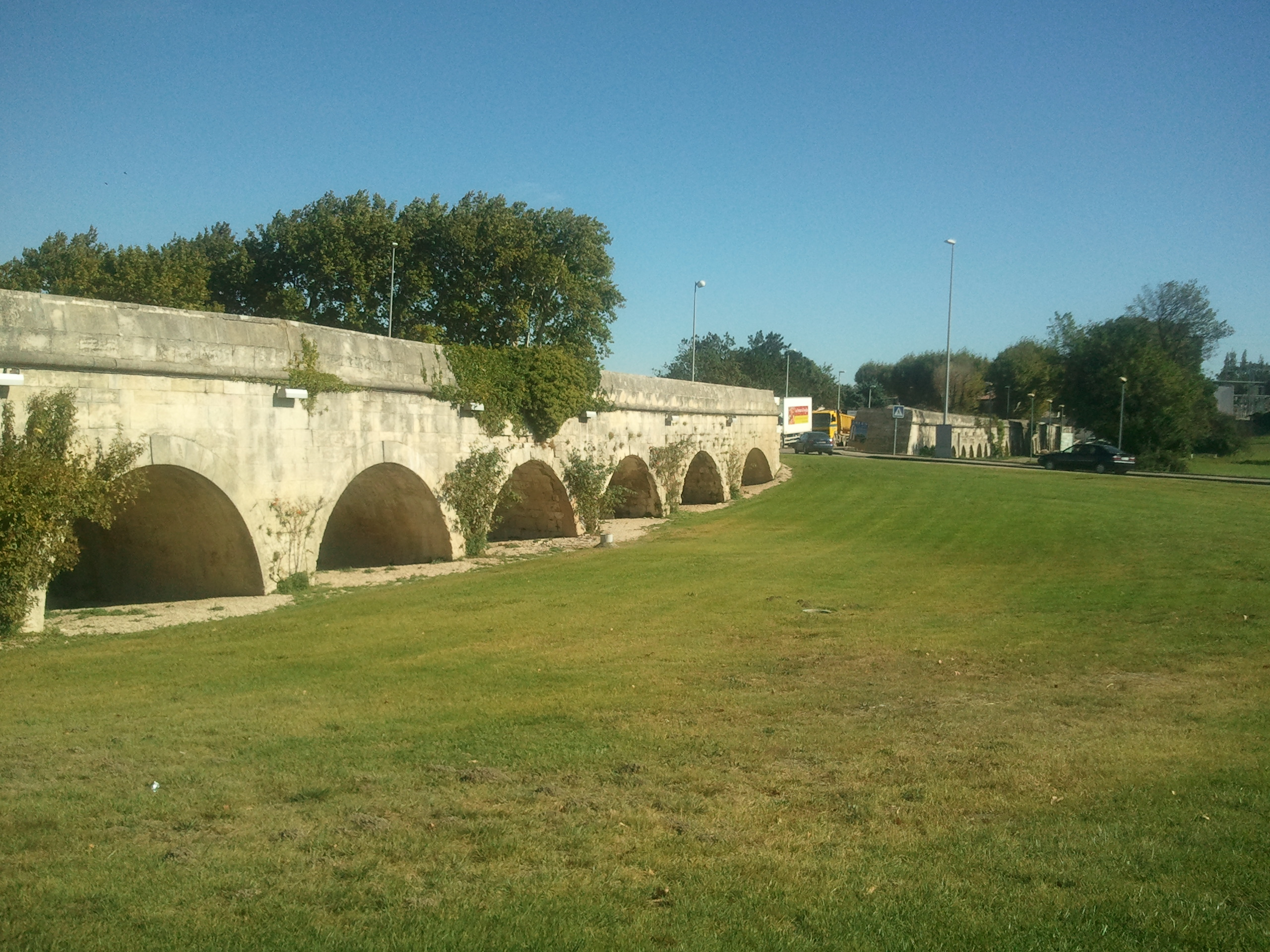 The Aqueduc section that crosses the roundabout of Pont Du Crau.